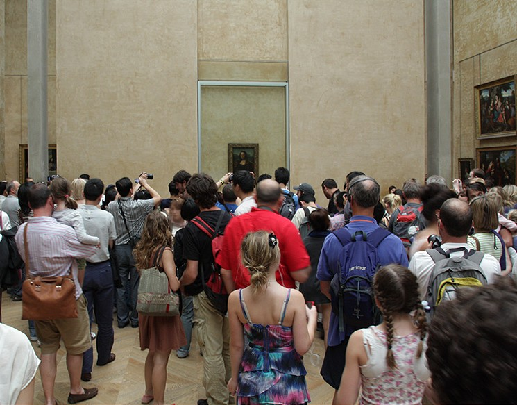 Visitors of Louvre in front of Mona Lisa